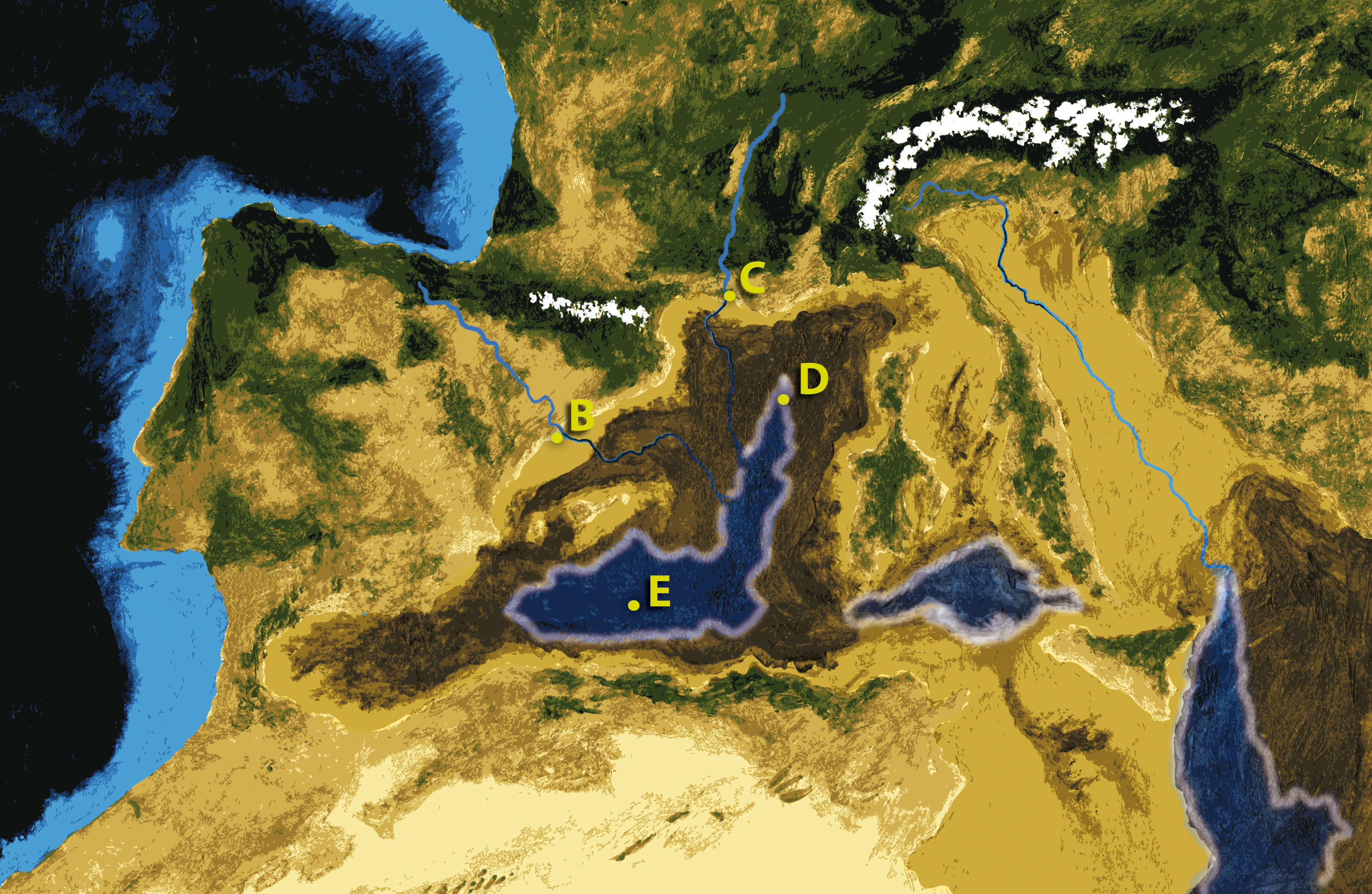 Closing the last channel connecting the Mediterranean and the Atlantic, leading to the first drying during the Messinian salinity crisis. B and C) Rivers which previously drained to the Mediterranean excavated erosion gorges in the continental margins. D) evaporation of the Mediterranean led to saturation of the salt in its waters and precipitation of salt layers over a kilometer thick. E) In the deeper parts of the sea were lakes where water collected from the Mediterranean basin evaporated. The box recreates the mammalian transit across the Strait.